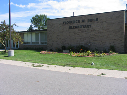 Siple Elementary